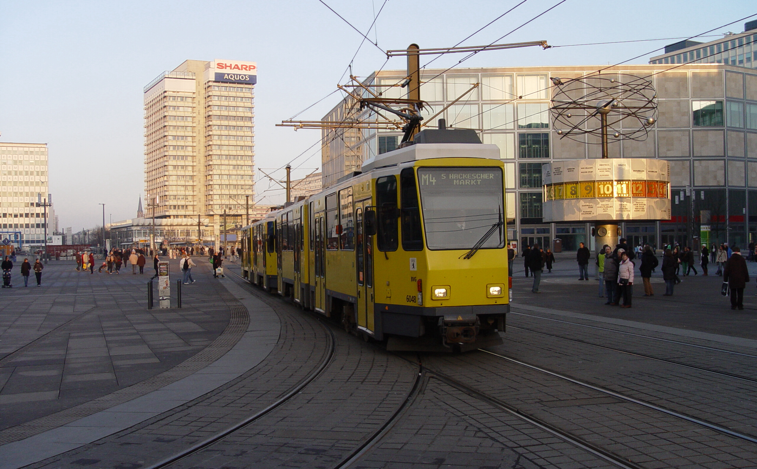 Tramway train composed of two KT4Dmod in the evening of 25 January 2009 on line M4 on Berlin Alexanderplatz close to world clock.